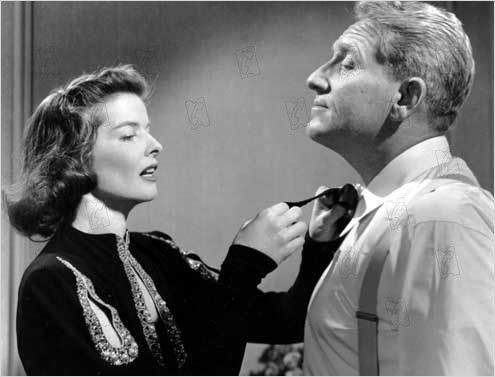 Spencer Tracey and Katherine Hepburn